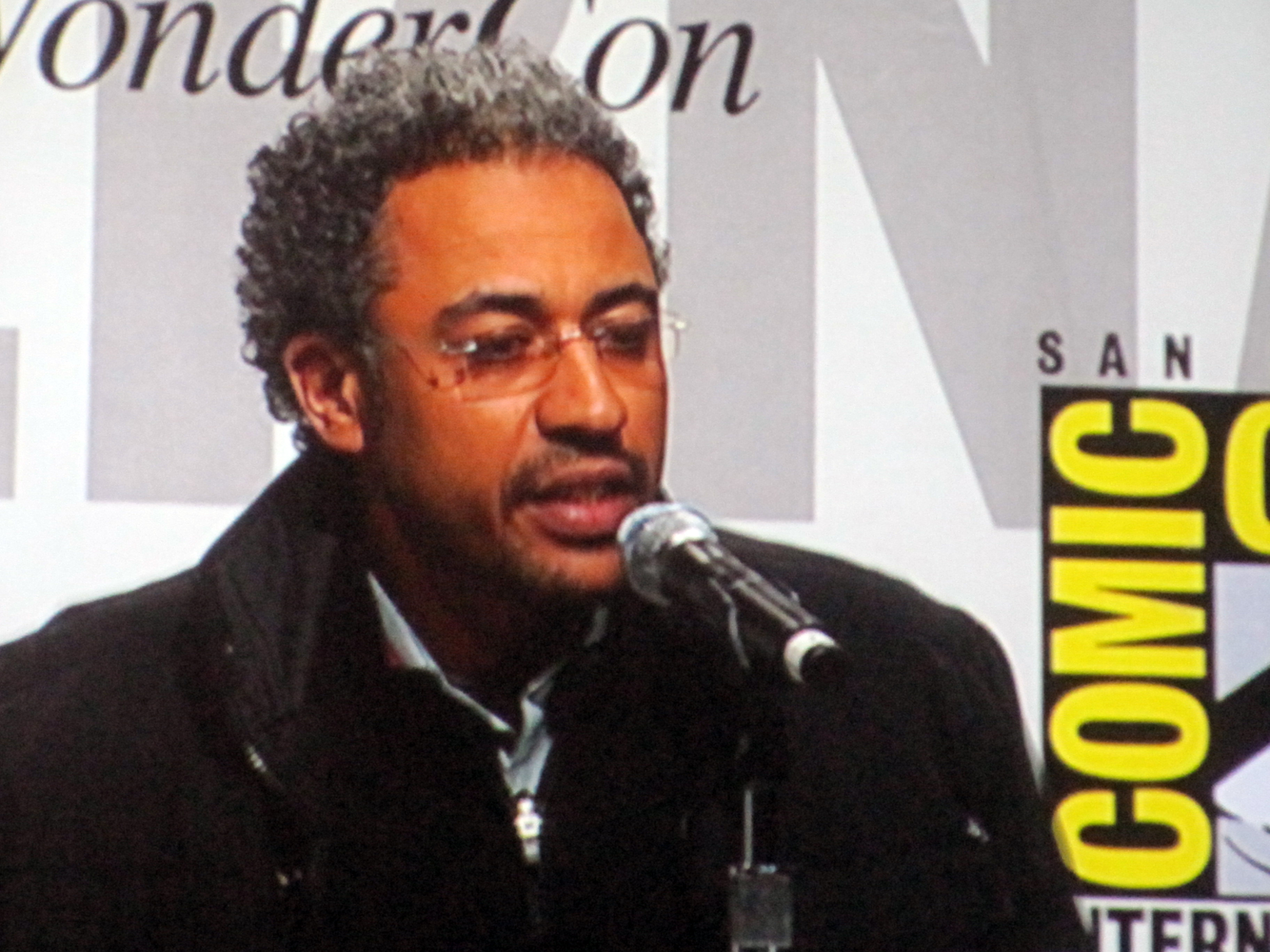 Director Sylvain White at The Losers film panel at WonderCon 2010.